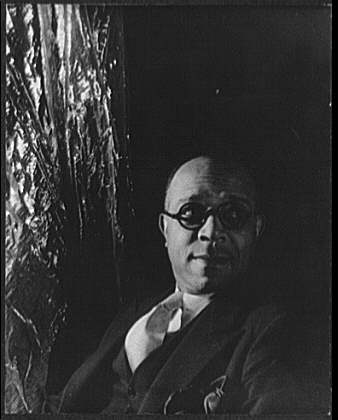 Portrait of J. Rosamond Johnson Portrait of J. Rosamond Johnson